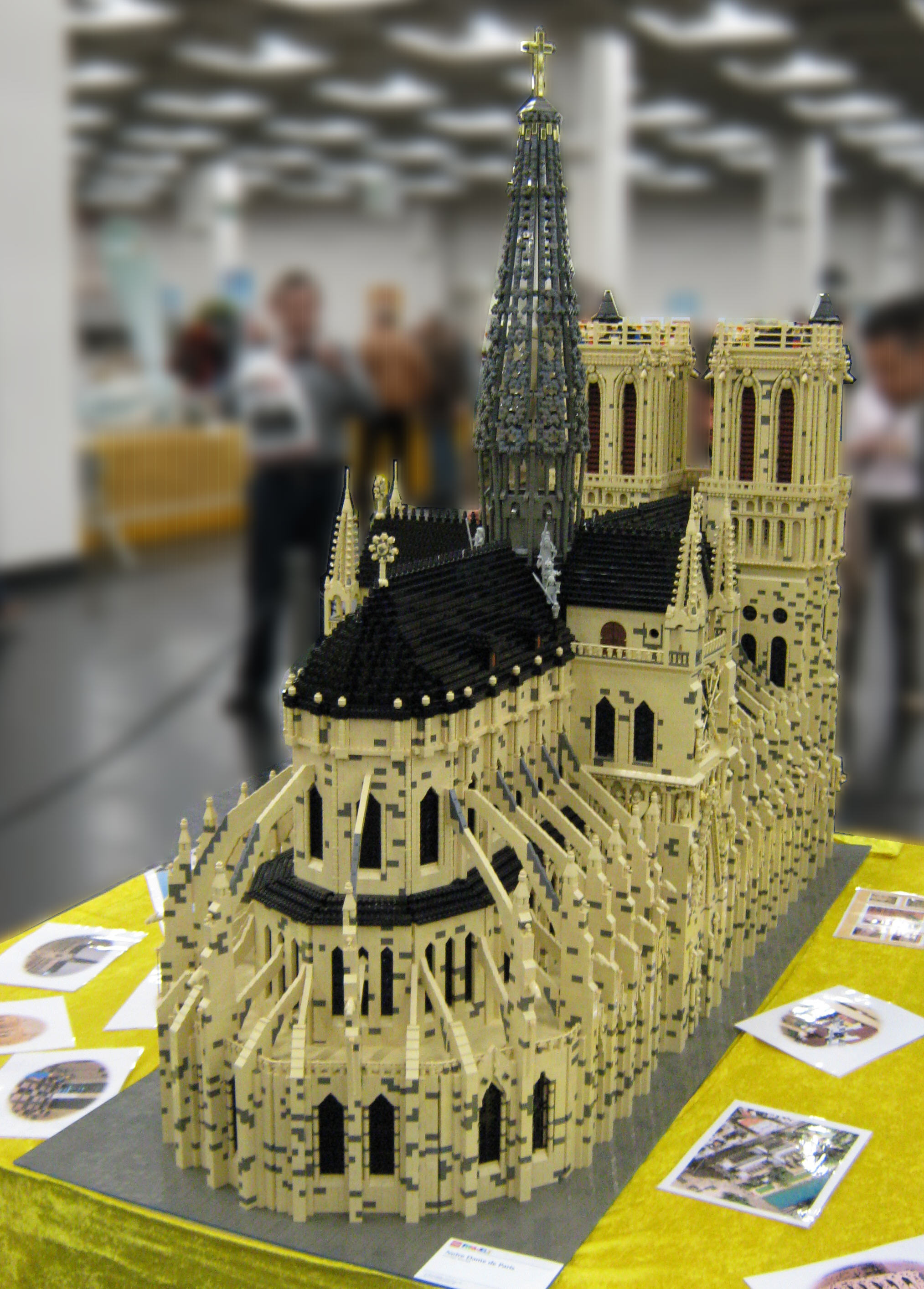 LEGO model of the Paris cathedral Notre Dame, build by Ingo Bramigk